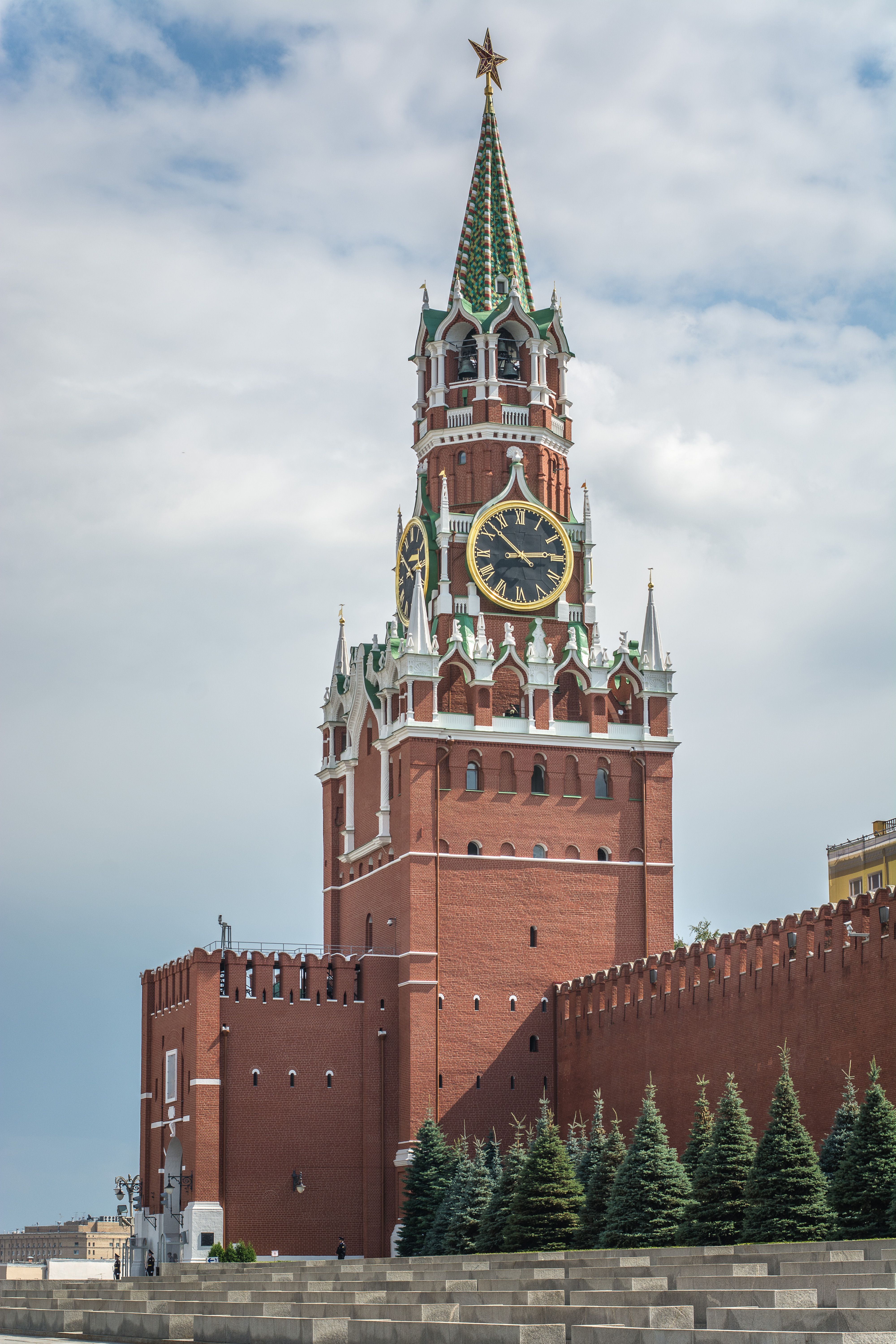 View of Spasskaya Tower from Historical Museum.